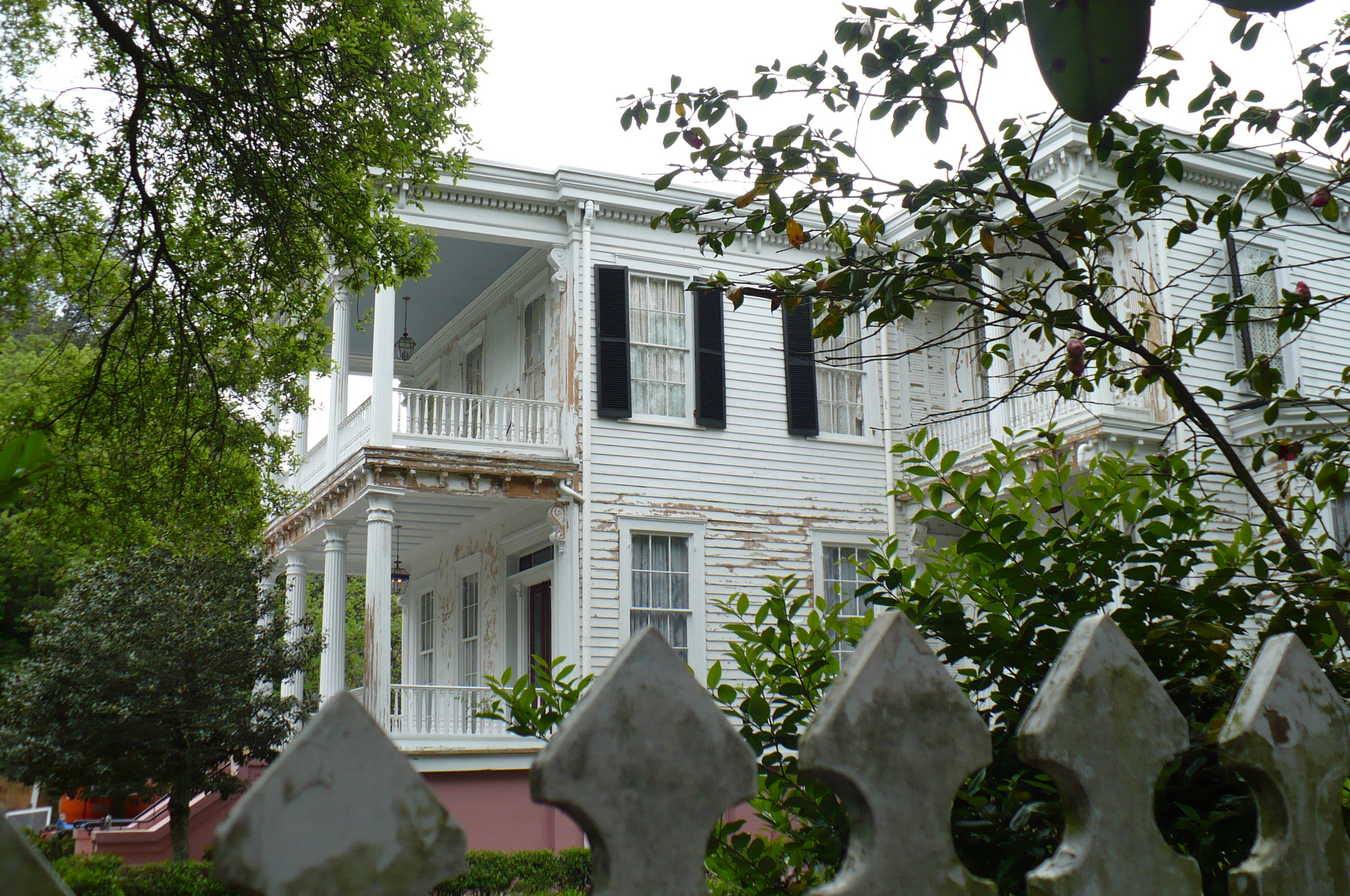 Carolina Hall(c. 1845) at 7 Yester Place (formerly 70 McGregor Street) in Mobile, Alabama. Building undergoing exterior restoration at the time of photo.